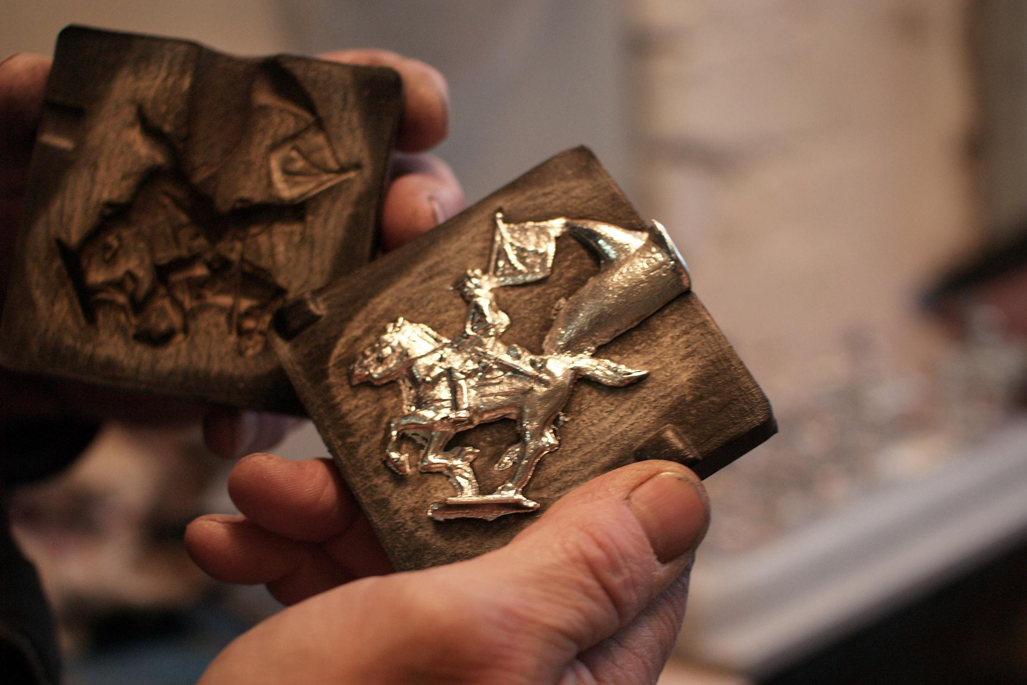 Making tin soldiers. Tin soldier in form after сasting.This is a mould from 40mm range of the vendor Prince August.